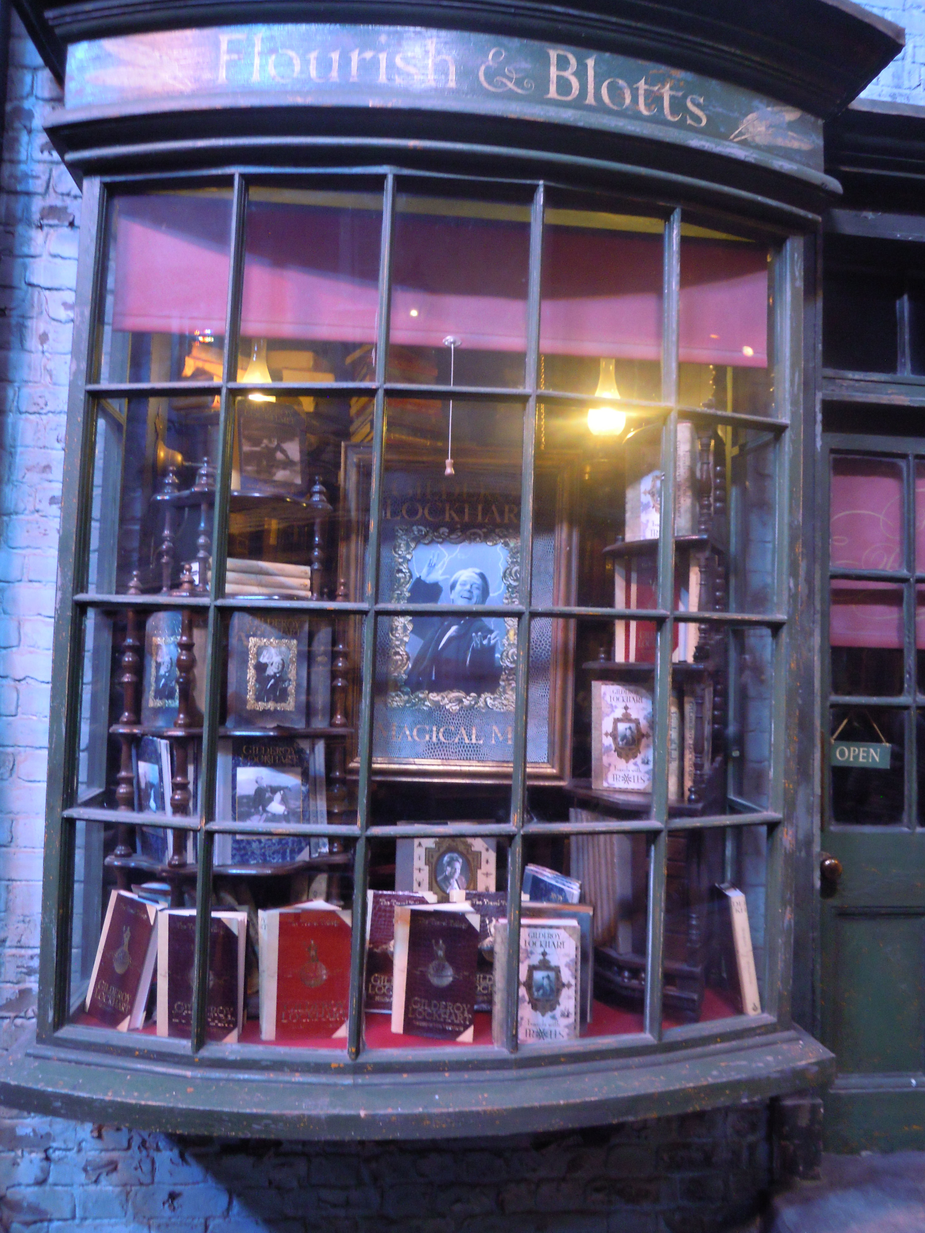 The window of Flourish & Blotts, Diagon Alley. Harry Potter film set at Warner Bros. Studios, Leavesden, UK